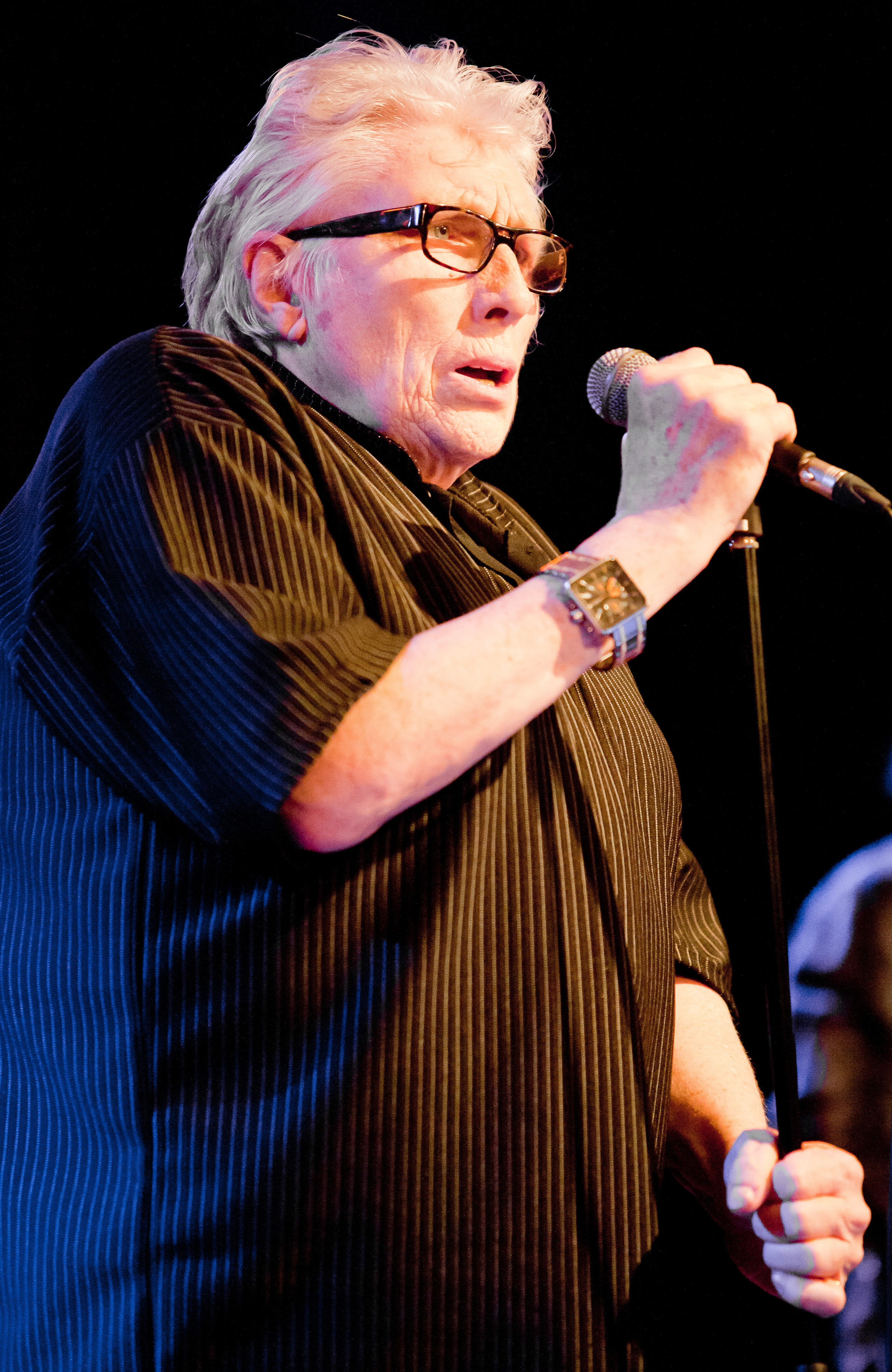 Chris Farlowe in concert with Colosseum at “Brückenforum”, Bonn, Germany